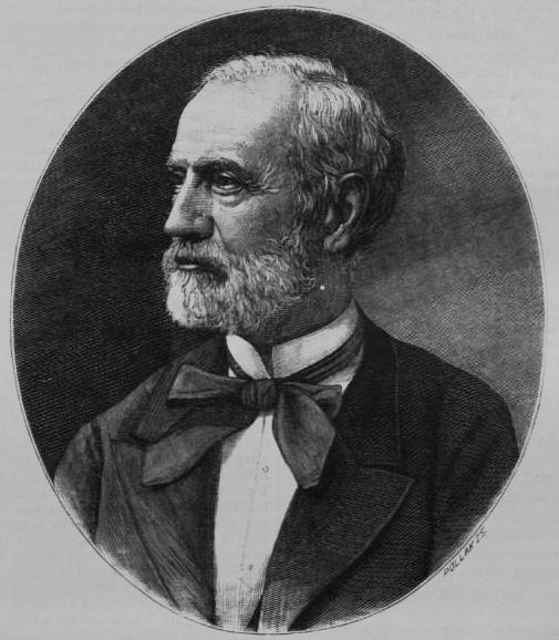 Portrait of Béla Perczel